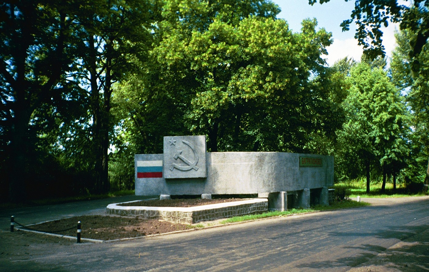 Monument at the border with Poland in Bagrationosvk, Russia